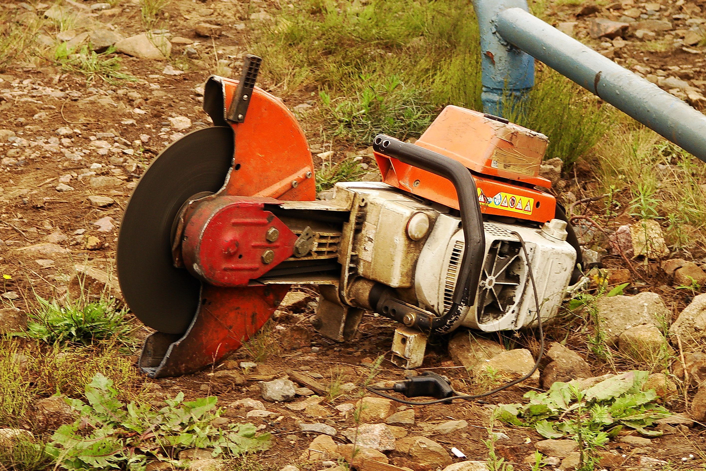 Russian Railways, Rail cutting machine